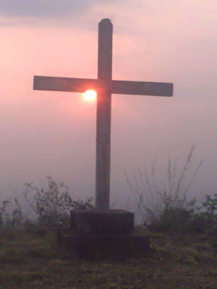 evening view